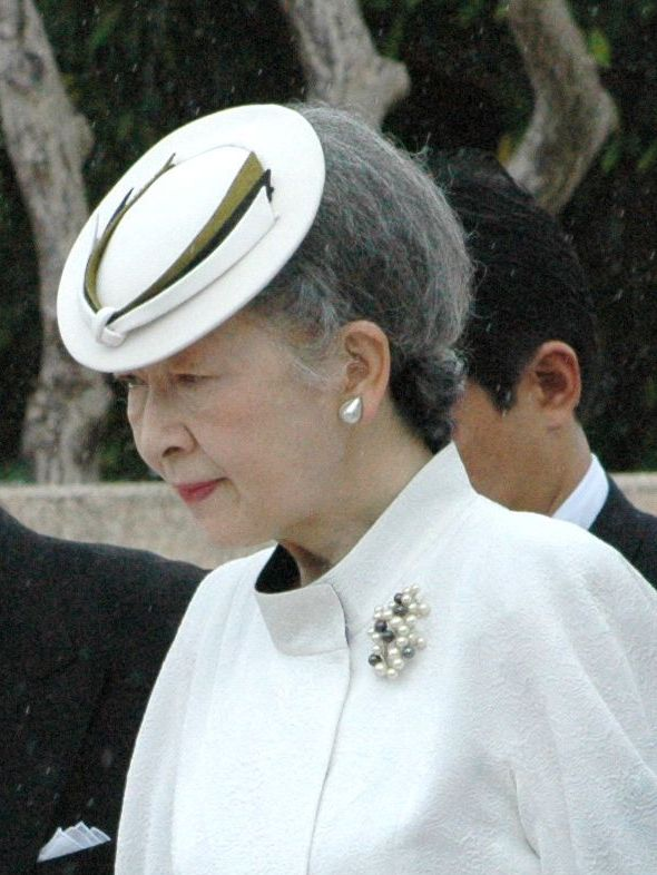 Emperor Akihito and Empress Michiko of Japan; 050628-N-7293M-093 Garapan, Saipan (June 28, 2005) – U.S. Navy Capt. Conrad Divis and U.S. Air Force 2nd Lieutenant Kazumi Udagawa escort the emperor and empress of Japan from the Court of Honor at the American Memorial Park during a historic visit by the royal family of Japan. Japanese Emperor Akihito and Empress Michiko made their first-ever trip to commemorate a World War II battle. The royal couple took time on Saipan to visit sites and monuments that remember Japanese, island civilian and American fallen service members in order to affirm the friendship that has grown between Japan and the United States. U.S. Navy photo by Photographer’s Mate 2nd Class Nathanael T. Miller (RELEASED)